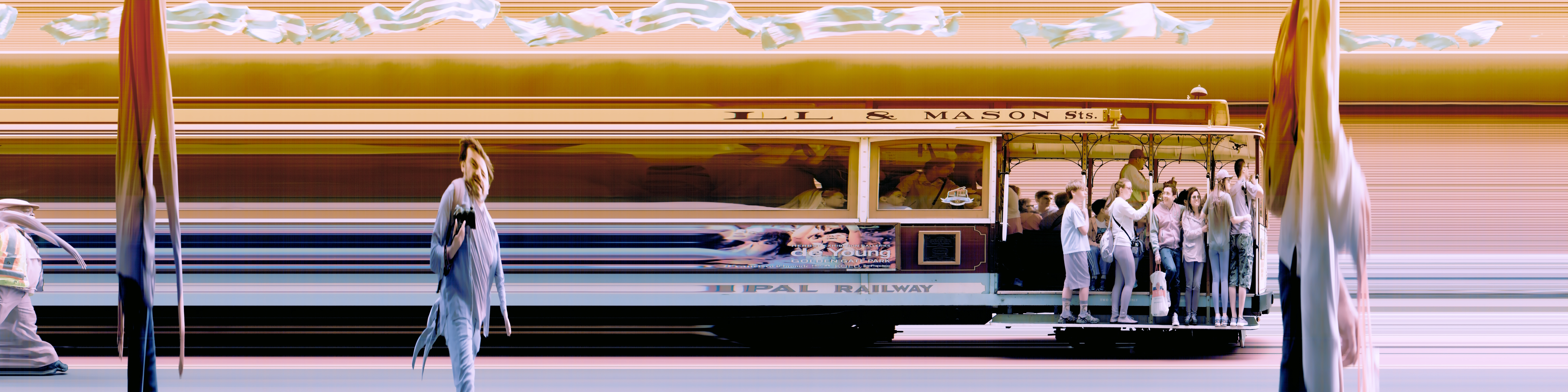 A car of the San Francisco cable car system photographed using strip photography, a photographic technique of capturing a 2-dimensional image as a sequence of 1-dimensional images over time, rather than a single 2-dimensional at one point in time.